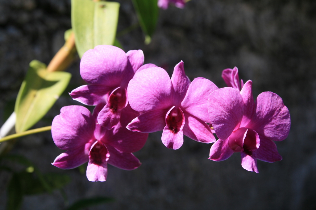 Wild orchids growing in Madridejos, Cebu